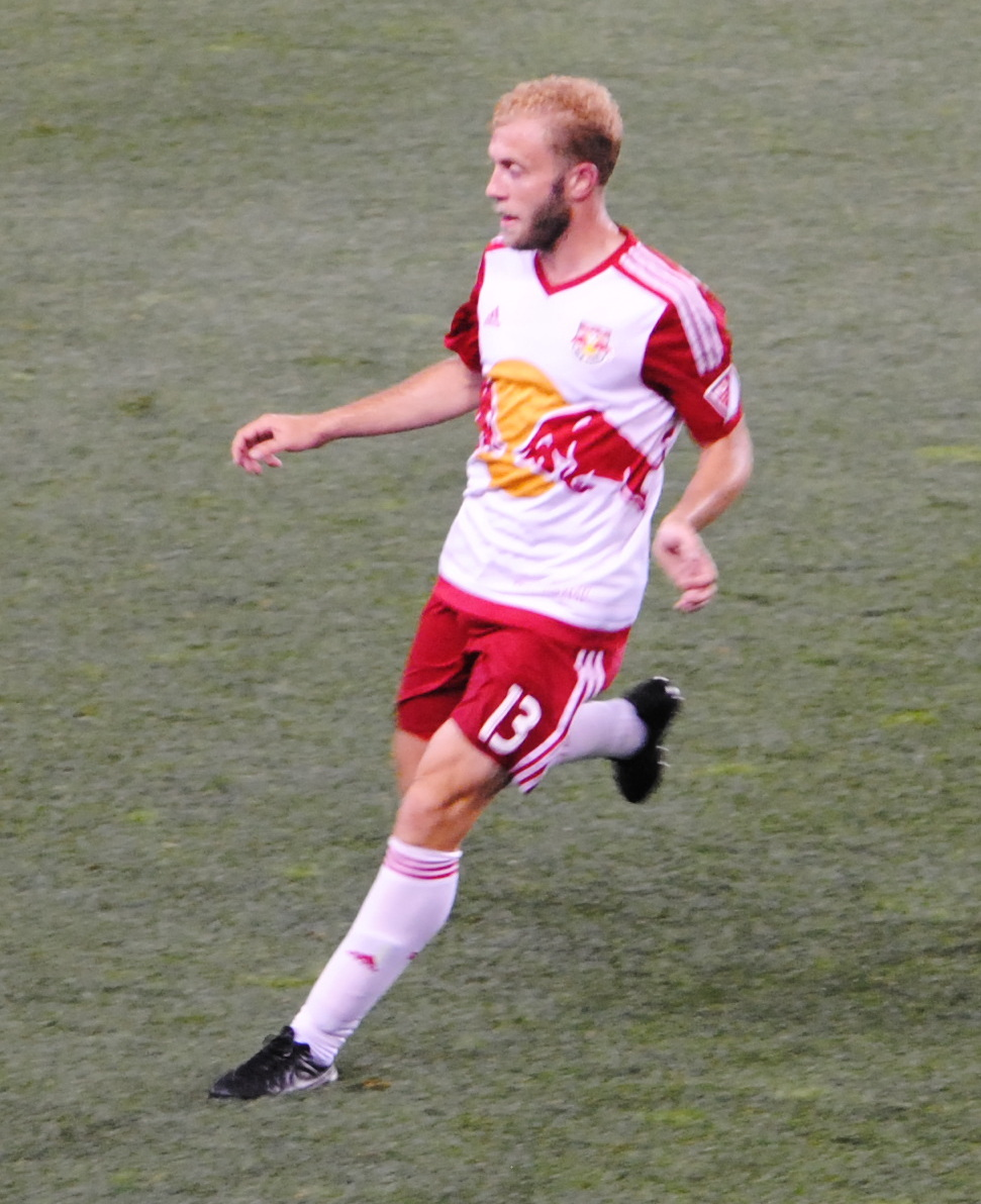 Mike Grella New York Red Bulls